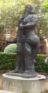 Stature of Gilgamesh full view